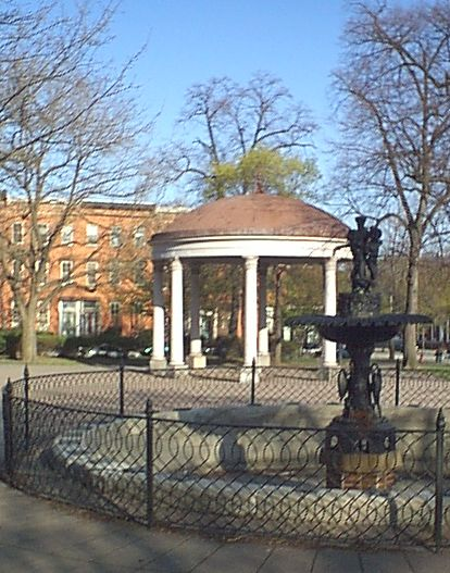 View of Union Square Park with fountain in foreground and pavilion in background. Photograph by Chris Everett